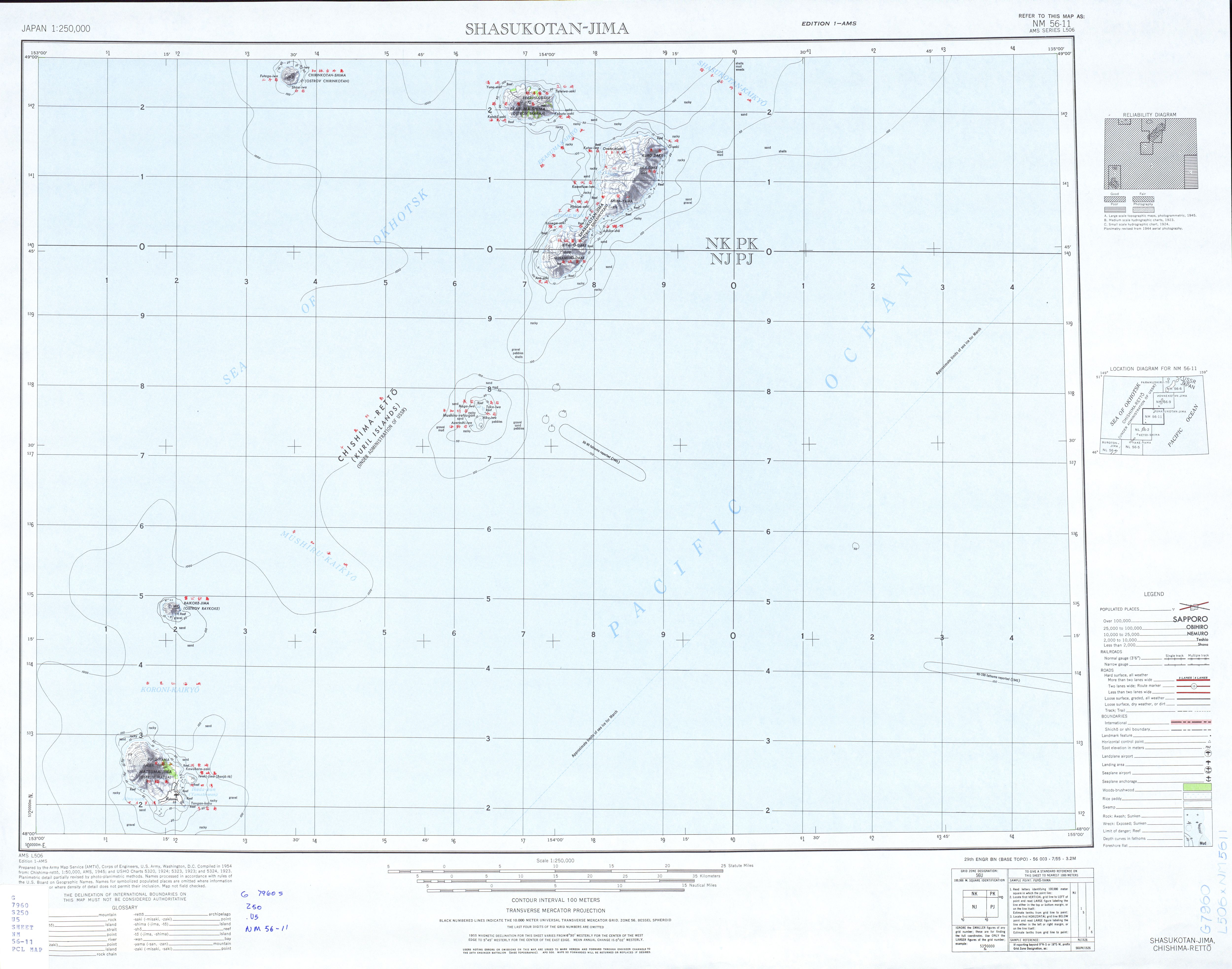 List from Japan AMS Topographic Maps. Series L506, U.S. Army Map Service, "compiled" in 1954; Chirinkotan, Ekarma, Shiashkotan, Lovushki Rocks, Raikoke, and Matua